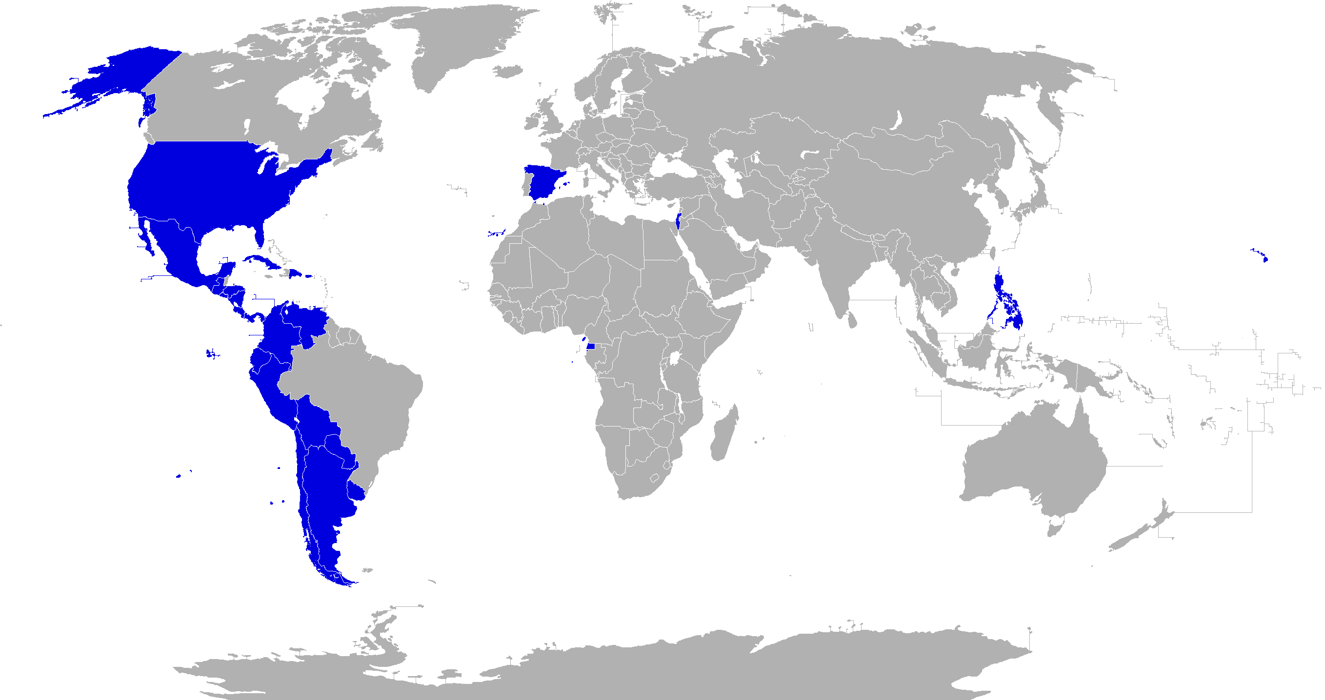 Countries where a Spanish language academy exists.